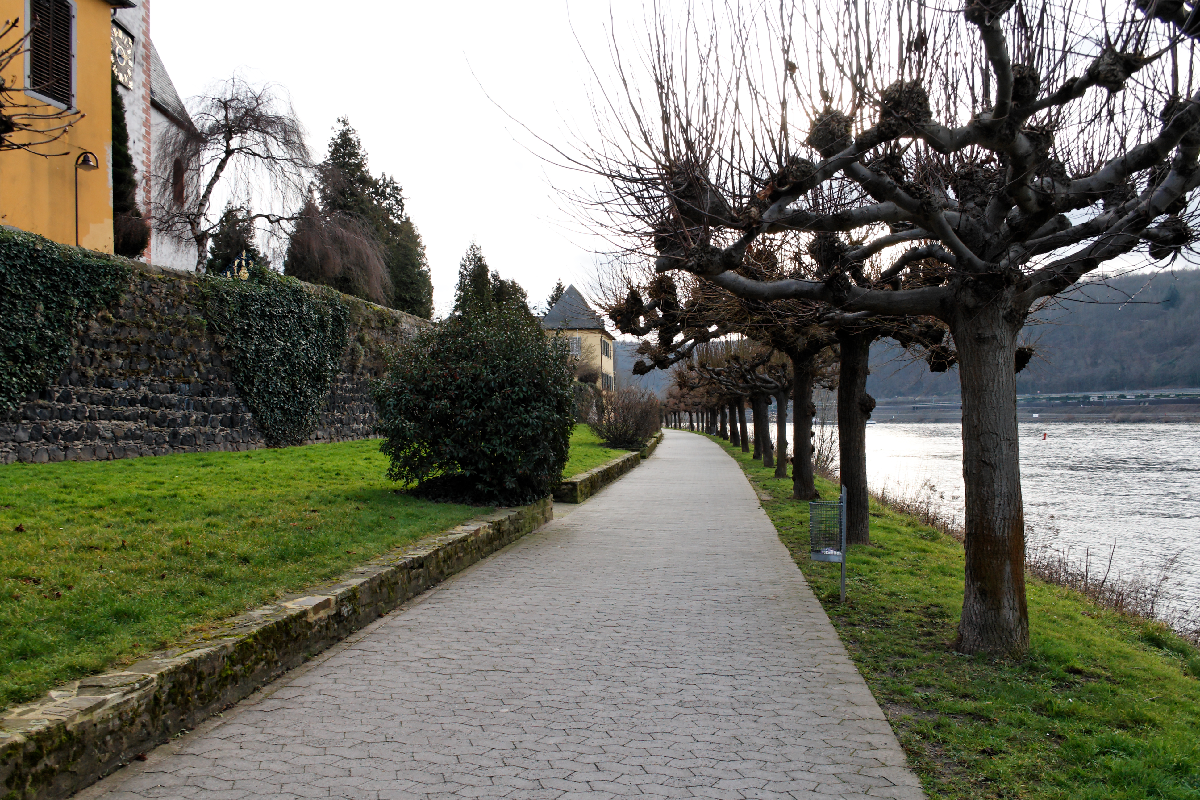 This image shows the rhine promenade in Unkel, Germany.